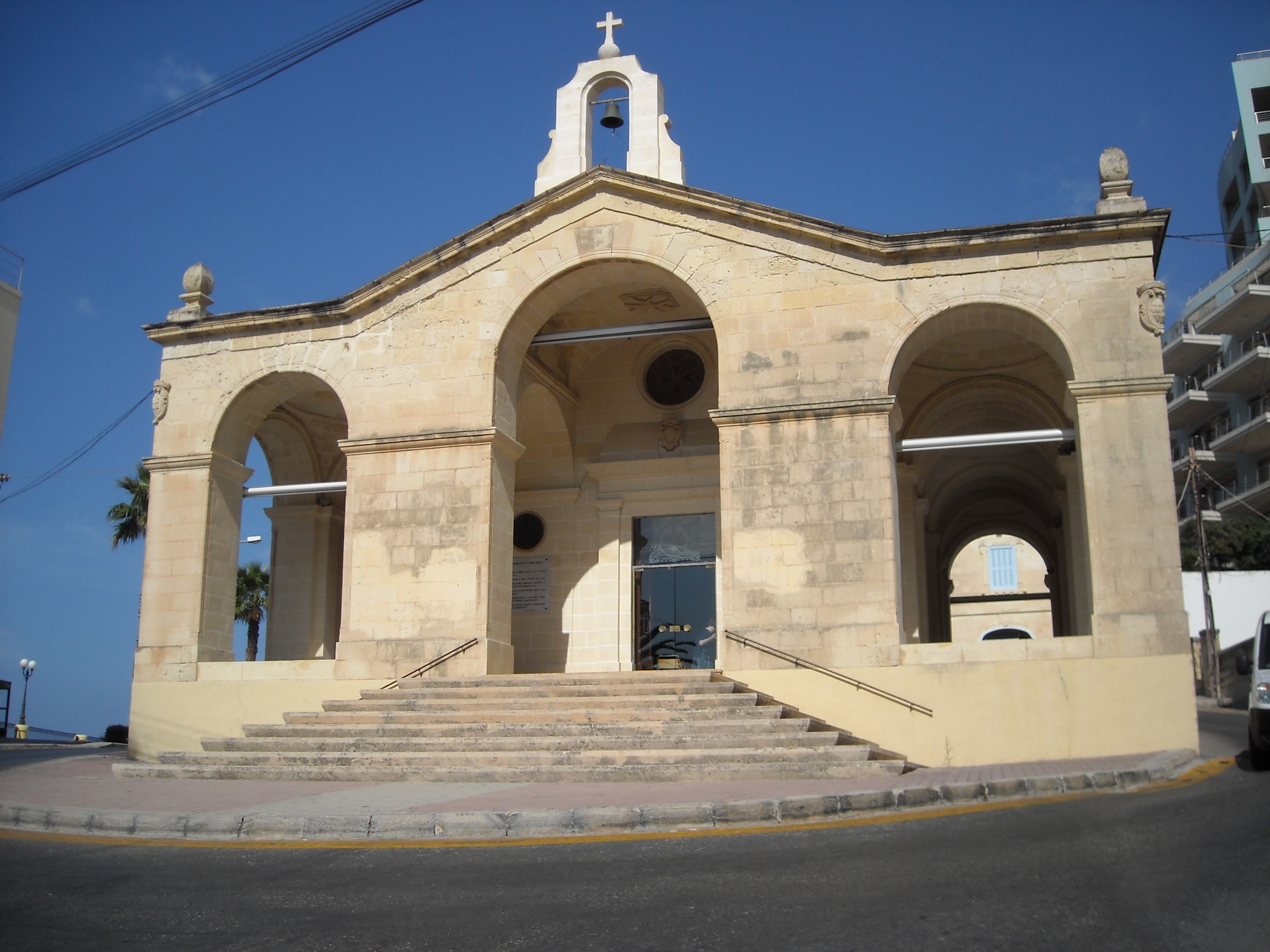 Church of St. Paul's Shipwreck, St. Paul's Bay, Malta